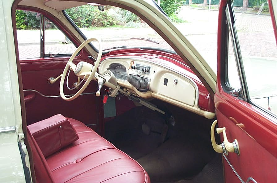 1959 Renault Frégate Transfluide saloon, ivory, interior in red fake leather The vehicle was on sale at the Garage de l'Est at the time the image was uploaded